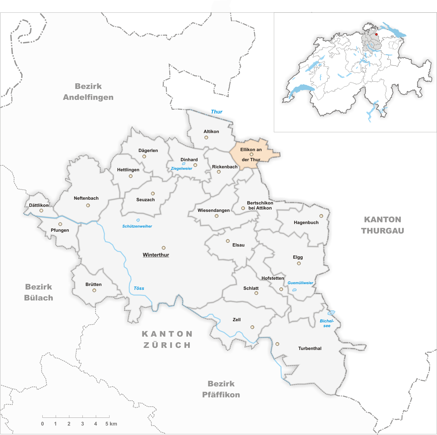 Municipality Ellikon an der Thur